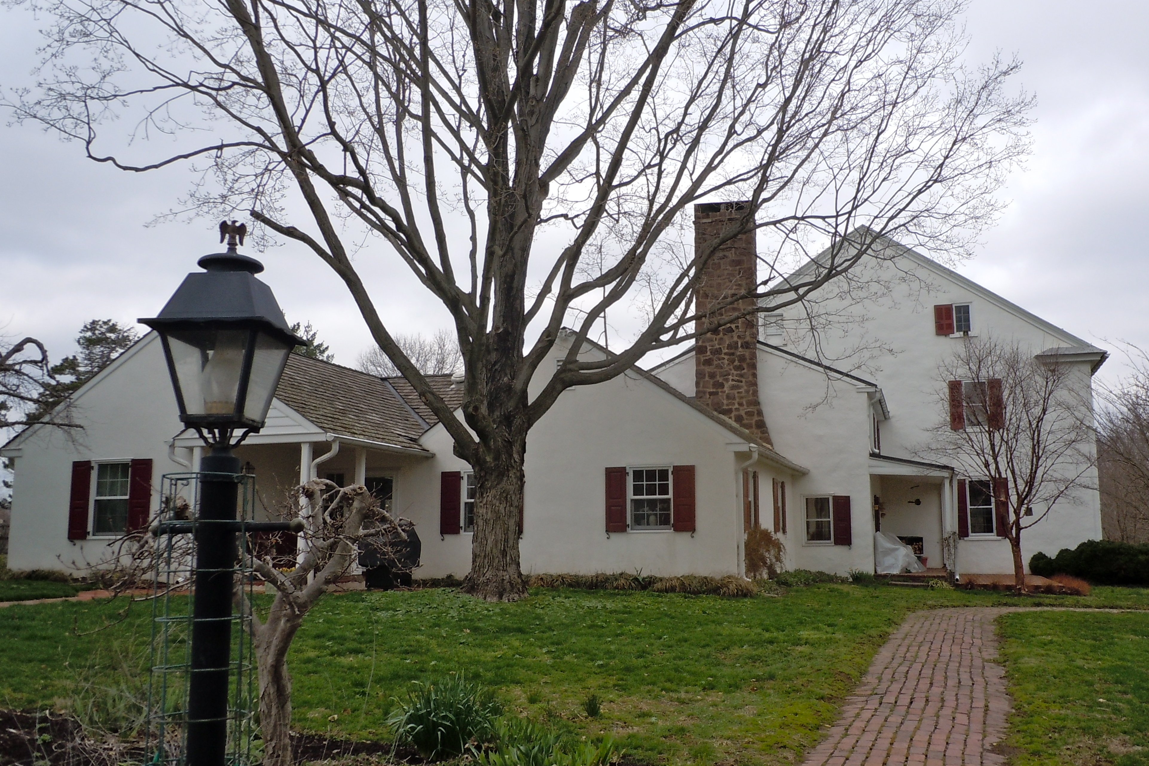 River Bend Farm on the NRHP since August 29, 1980. North of Spring City on Sanatoga Road, in northern Chester County, Pennsylvania, near Pottstown. Some confusion whether this is in East Vincent or East Coventry Township - I believe it's the later. Right across the Schuylkill River from the Limerick Nuclear Power Plant. Built c.1760